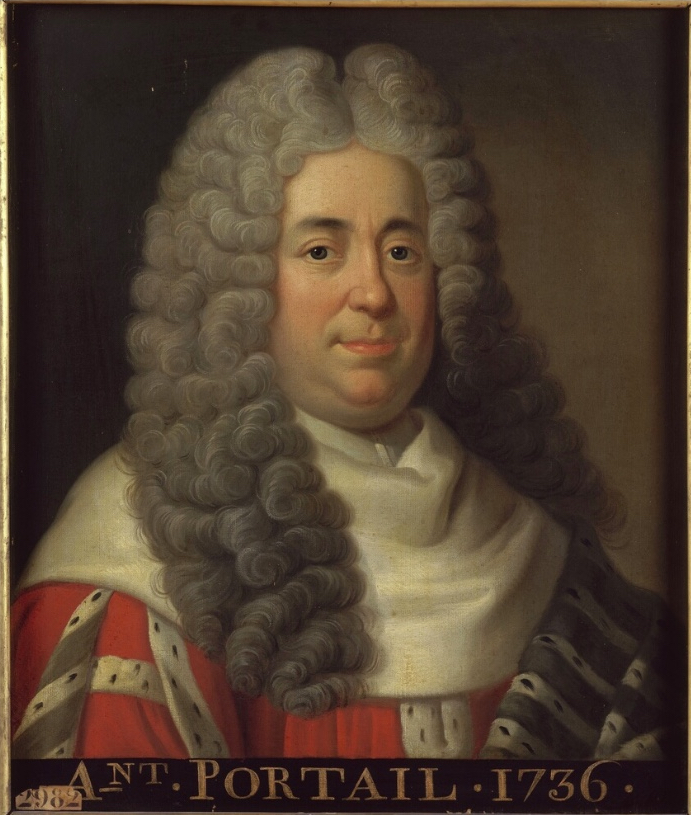 18th century copy of an anonymous portrait, musée du Château de Versailles.